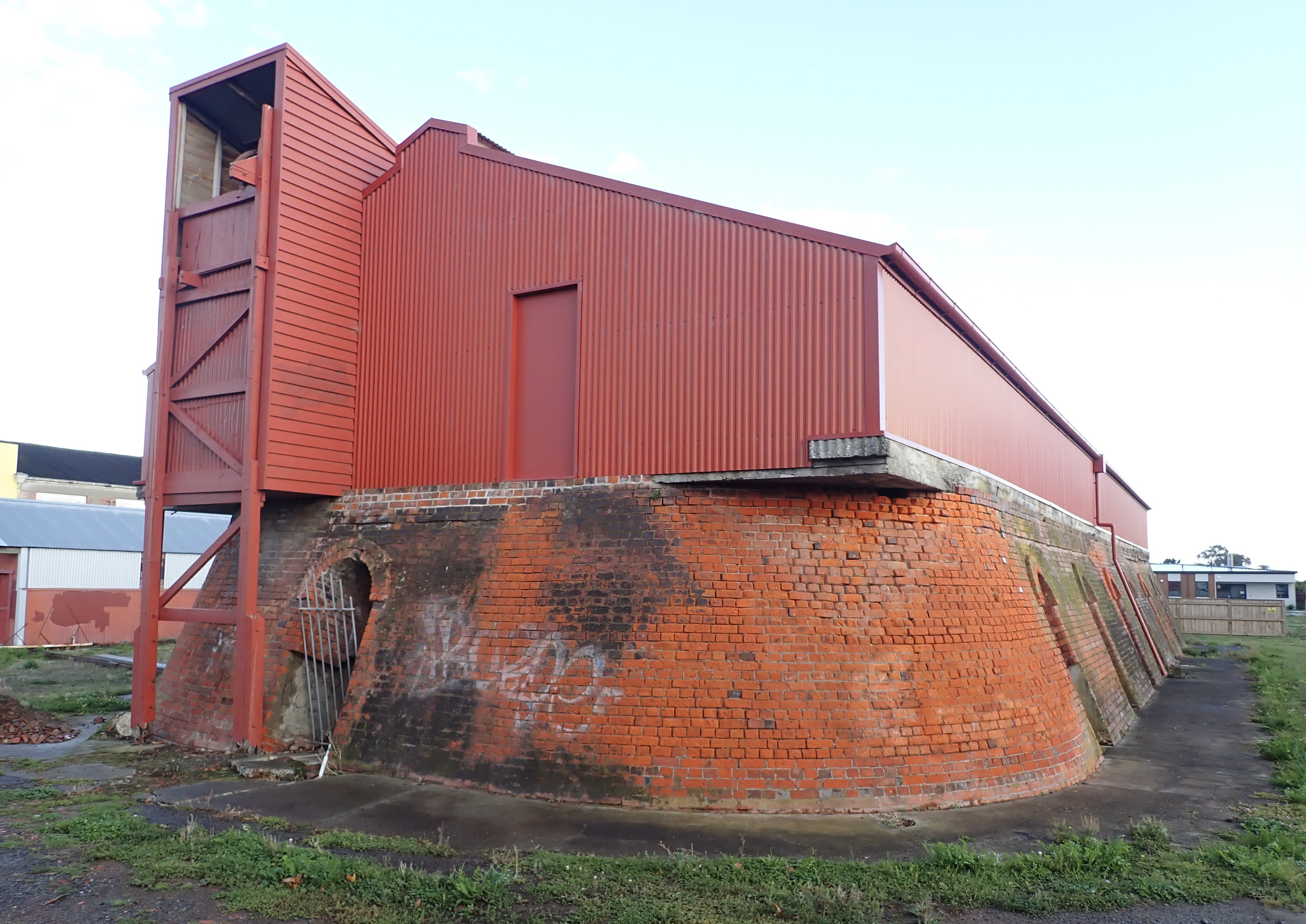 This Hoffman Continuous Kiln on Featherston Street, Palmerston North, was built around 1904 by Robert Price Edwards. It consists of 14 chambers accessed though "wicket" openings on the side. Bricks could be stacked in one chamber while others were firing, and it took a week for the fire to travel around all 14 chambers. At its peak the kiln was producing 60,000 bricks a week. It was last fired in 1959. A protection order was placed on the site in 1984 and the building has been restored by the community. It is a Category 1 Historic Place on the Heritage New Zealand list, number 194.